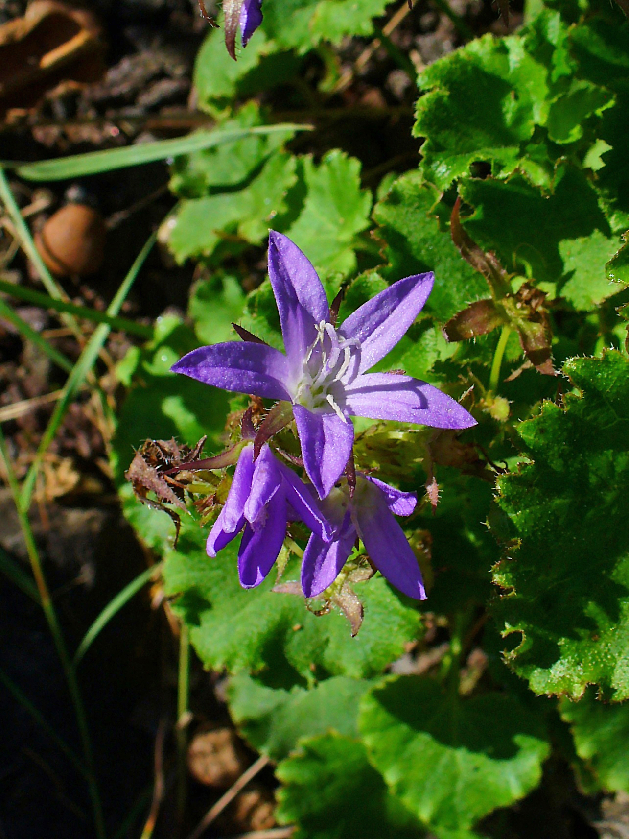 Campanula poscharskyana, Campanulaceae, Serbian Bellflower, flower; Botanical Garden KIT, Karlsruhe, Germany.